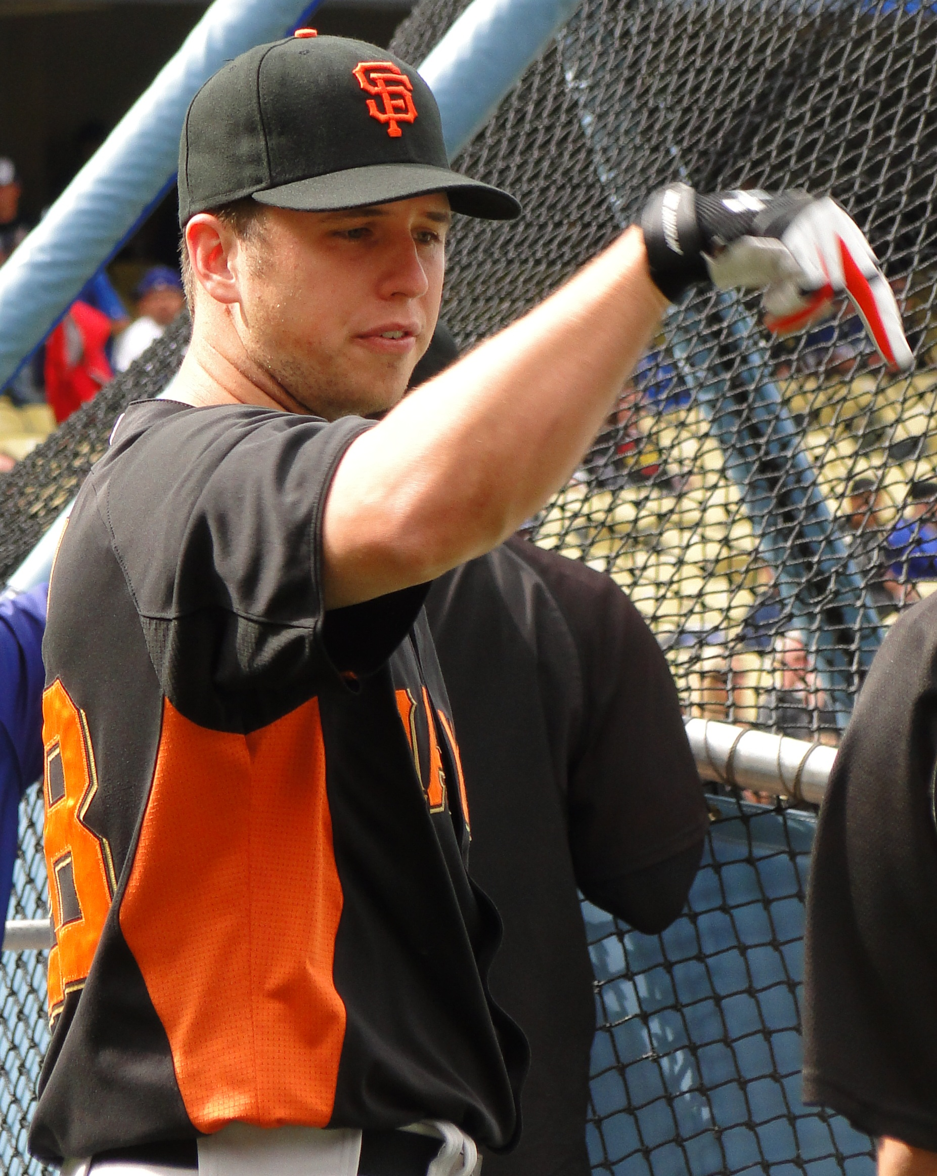 Buster Posey at Dodger Stadium.